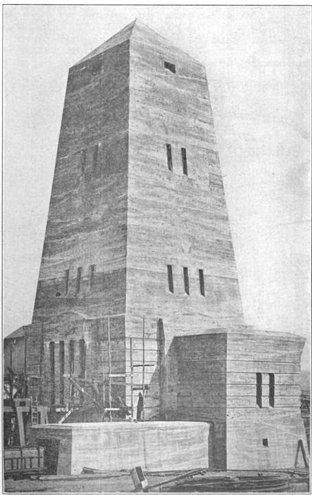 Cliffs Shaft mine head frame, Ishpeming MI